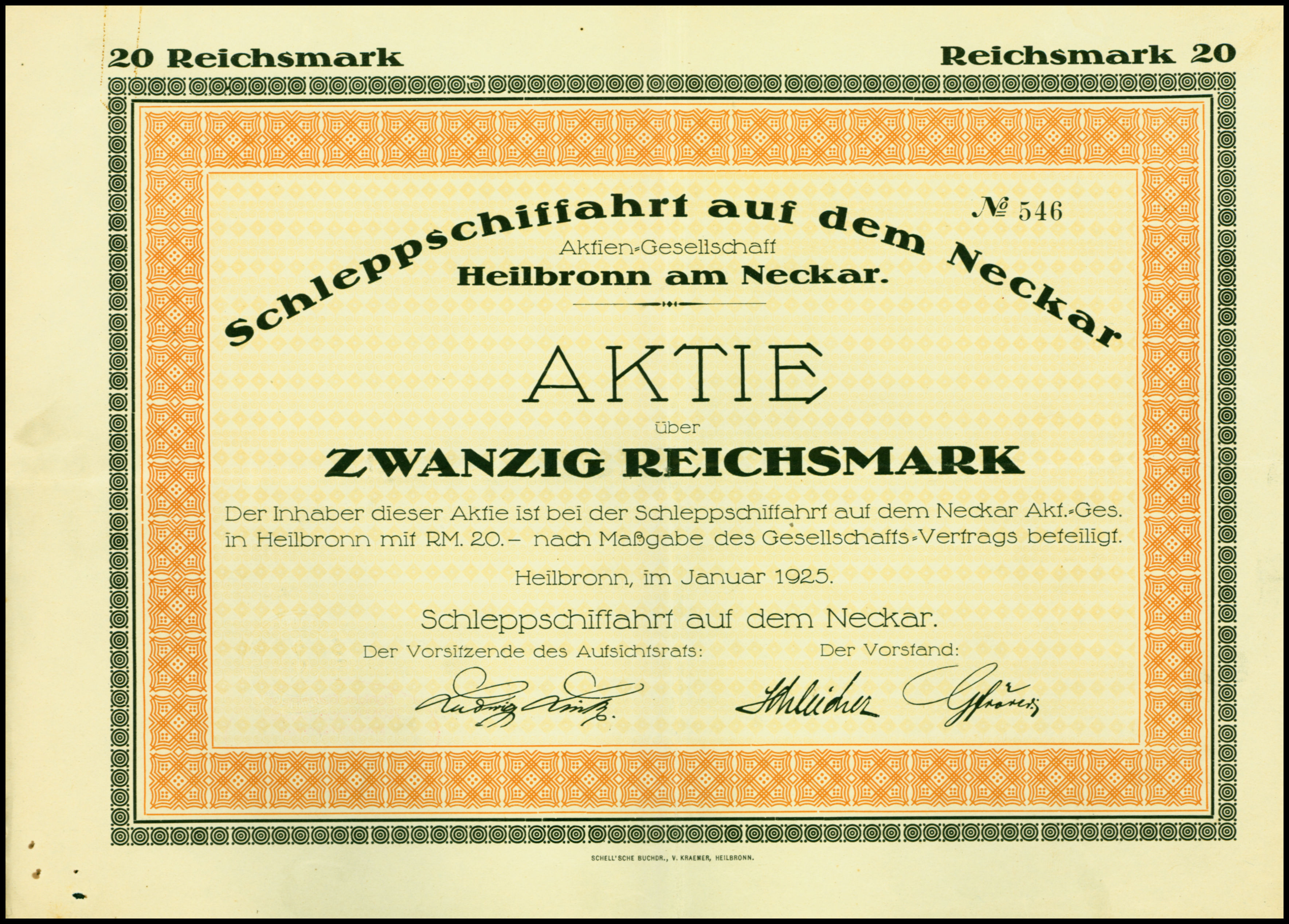 Share of the Schleppschiffahrt auf dem Neckar AG, issued January 1925